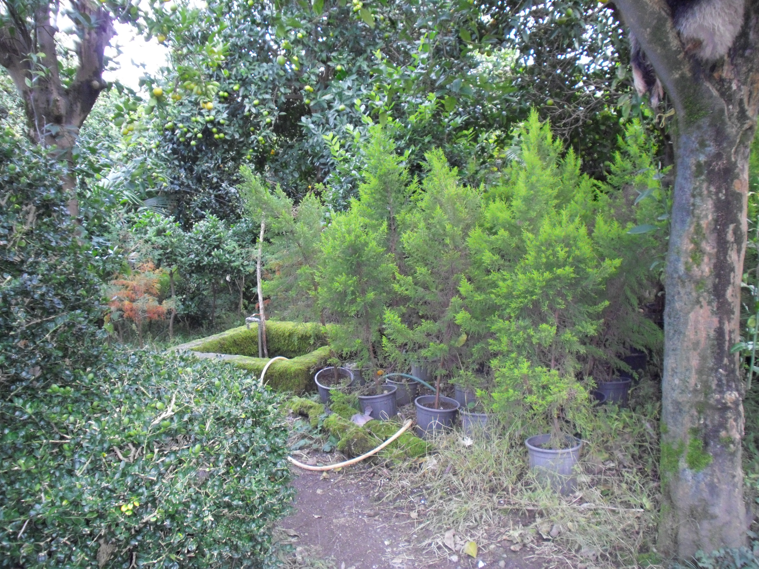 Some Trees in Iran.